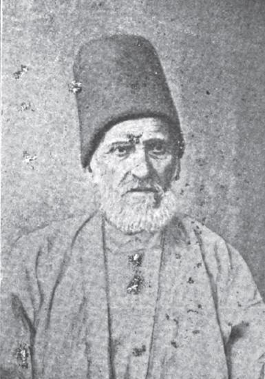 This picture was taken from a special edition of a magazine called "Resimli Gazete" (Picture Newspaper) published in Istanbul in 1899. The special edition is titled "Girit ahali-yi Islamiyesi muhtacının menfaatine mahsus nüsha-yi fevkaladesi" (Special Edition for the benefit of the needy Muslim population of Crete). Its copyrights have expired under both the Turkish and U.S. laws.